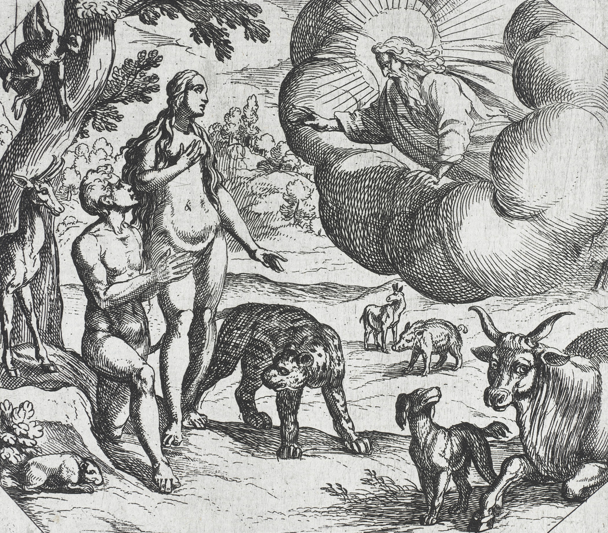 Italy, 16th century Series: The Creation of the World Prints; etchings Etching Los Angeles County Fund (65.37.61) Prints and Drawings